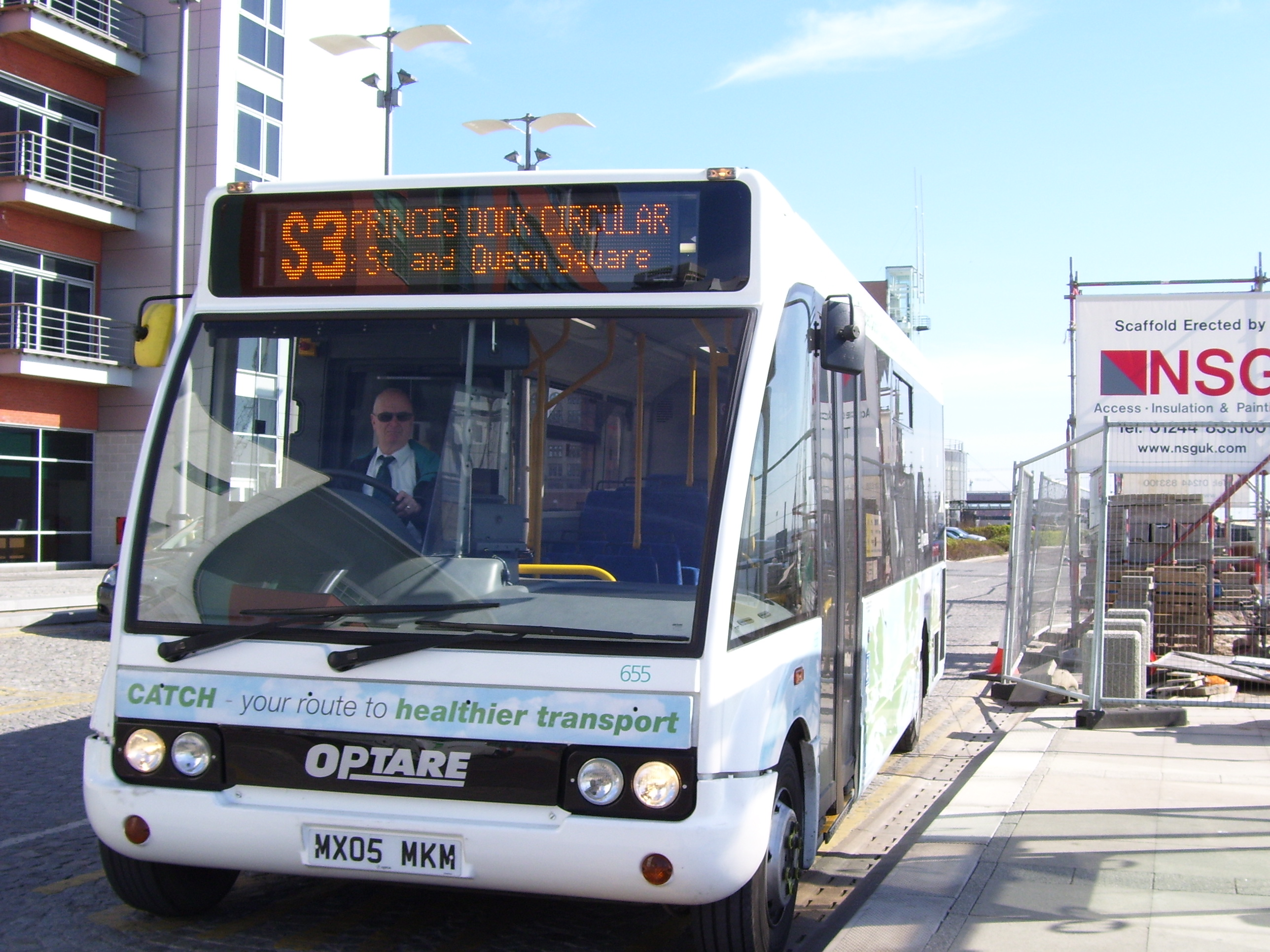 Arriva North West and Wales bus 655 (reg. MX05 MKM), a 2005 Optare Solo M850 midibus. It's pictured here branded as one of the six Merseytravel CATCH hybrid-electric trial buses, operating the associated Liverpool city centre shuttle route S3. The CATCH buses all initially used drivelines built by ECONO, but this proved to be unreliable. By the time of this photo 655 had been fitted with a different hybrid drive produced by Traction Technology, who took over the assets of ECONO in May 2006 after that company folded. All the CATCH buses were eventually re-fitted as Merseytravel BIONIC biofuel trial buses, operated by Stagecoach Merseyside in their coprorate livery, with BIONIC branding.